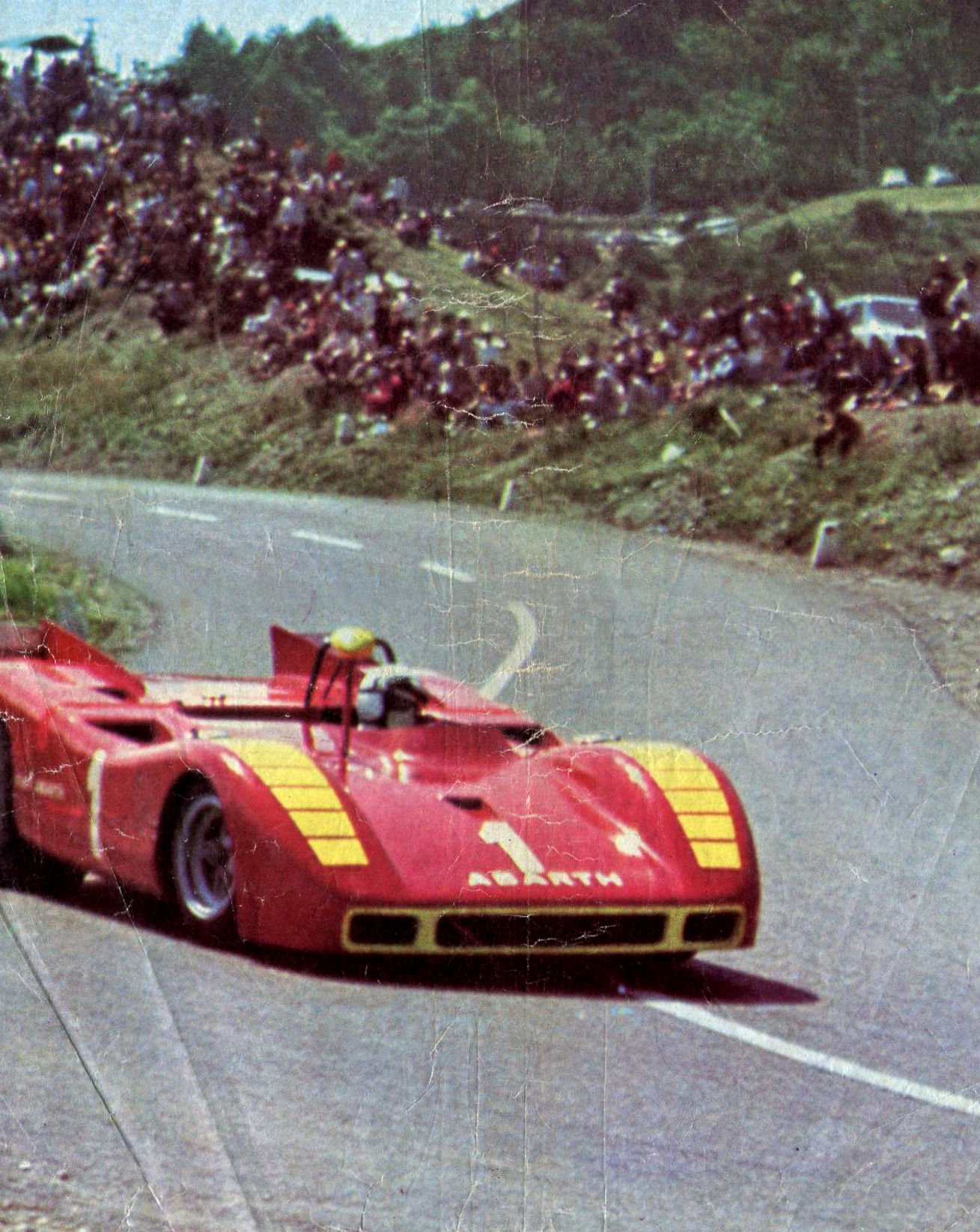 Mugello (Tuscany, Italy), Mugello road circuit, July 19, 1970. Italian motor racing driver Arturo Merzario on a Fiat Abarth 2000 Sport Spider Type SE 019 “Fuoribordo” (Group 6 - P2.0) of Abarth & C., in action at Giogo of Scarperia pass during the victorius 1970 Mugello Grand Prix, valid as round 6 of European 2-litre Sports Car Championship for Makes, and round 9 of Italian Sport Championship.